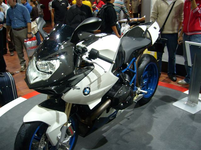 BMW HP2 Sport